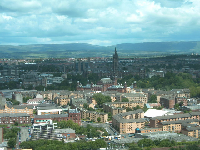 Glasgow University and Art Gallery View from the Glasgow Science Centre Tower of Glasgow University with Kelvingrove Art Gallery below it.